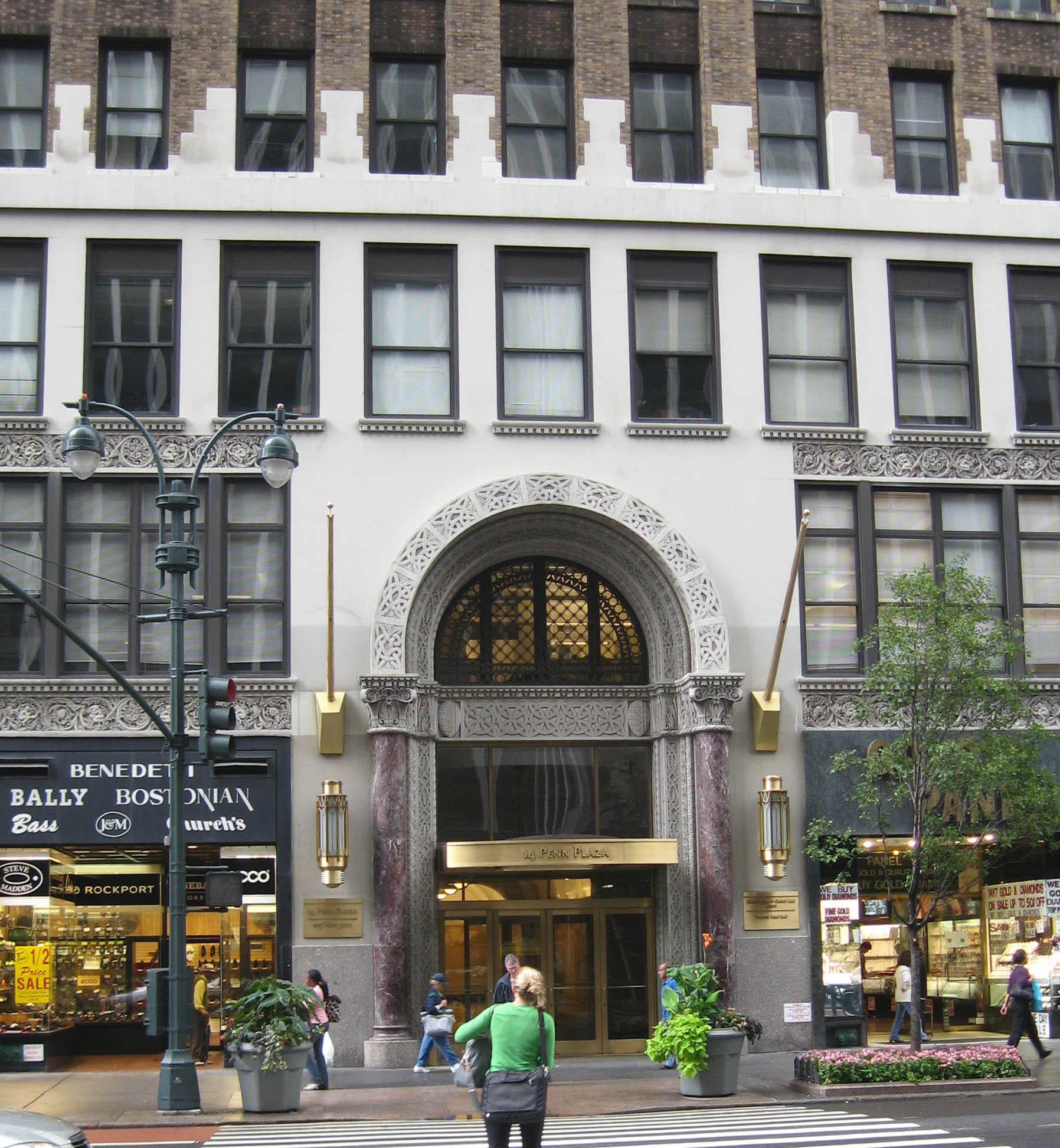 Looking north across 34th Street at 235 West 34th, the Pennsylvania Building, aka 14 Pennsylvania Plaza